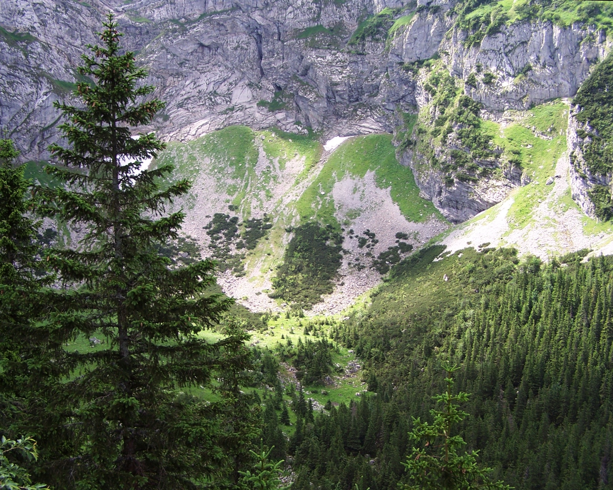 Dno Wielkiej Świstówki oraz dolna część wspólnej ściany Ratusza Mułowego i Progu Mułowego. Widok z Kobylarza